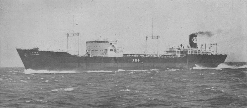 Taiyo Gyogyo K.K. oiler Chigusa Maru (Imperial Japanese Army Type Toku-2TL wartime standard ship)